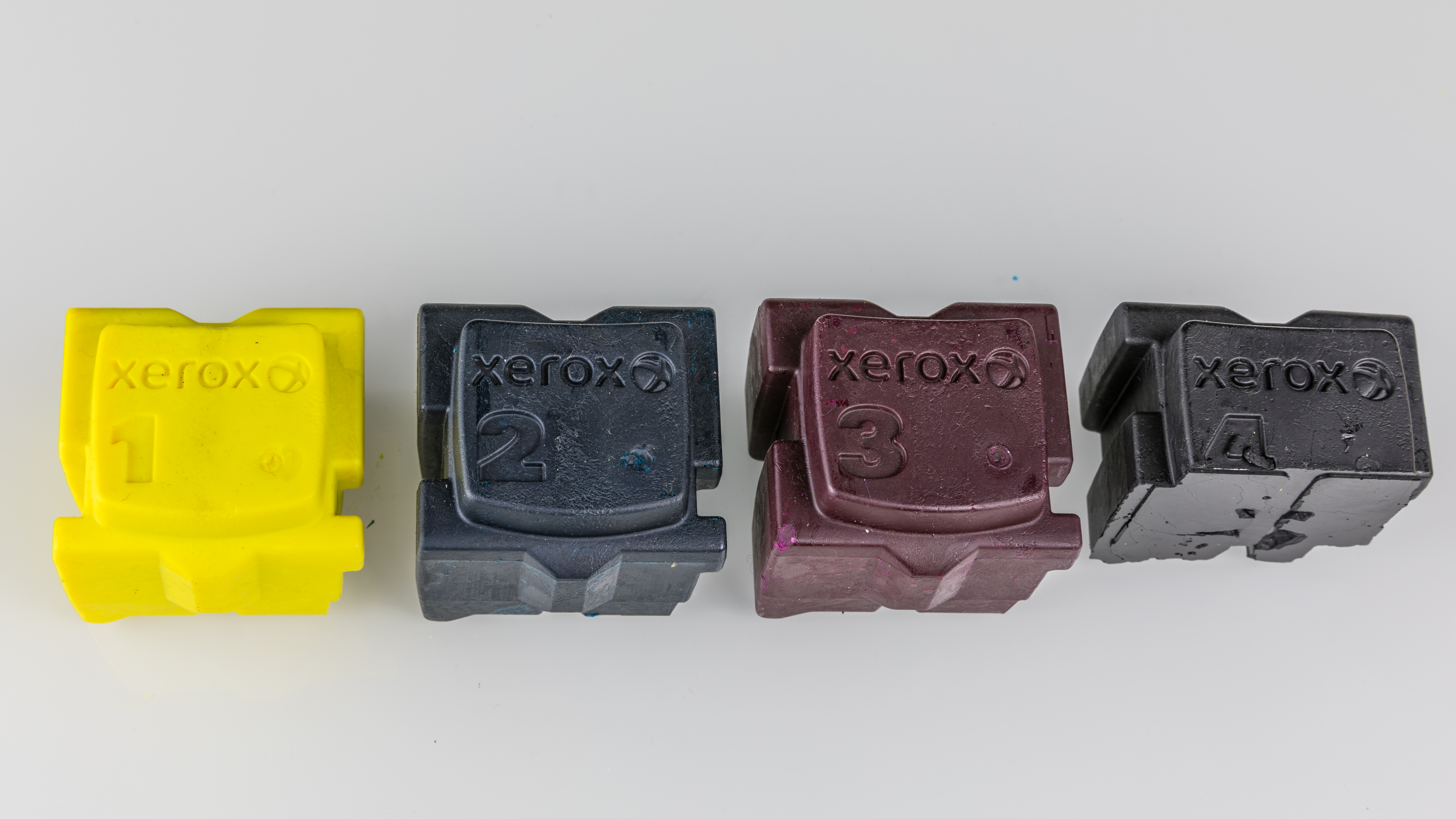 Xerox ColorQube 8570 - Color sticks - Yellow-Cyan-Magenta-Black (YM